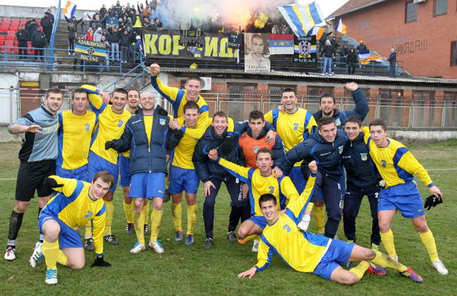 FC Novi Sad team in 2011-12 season